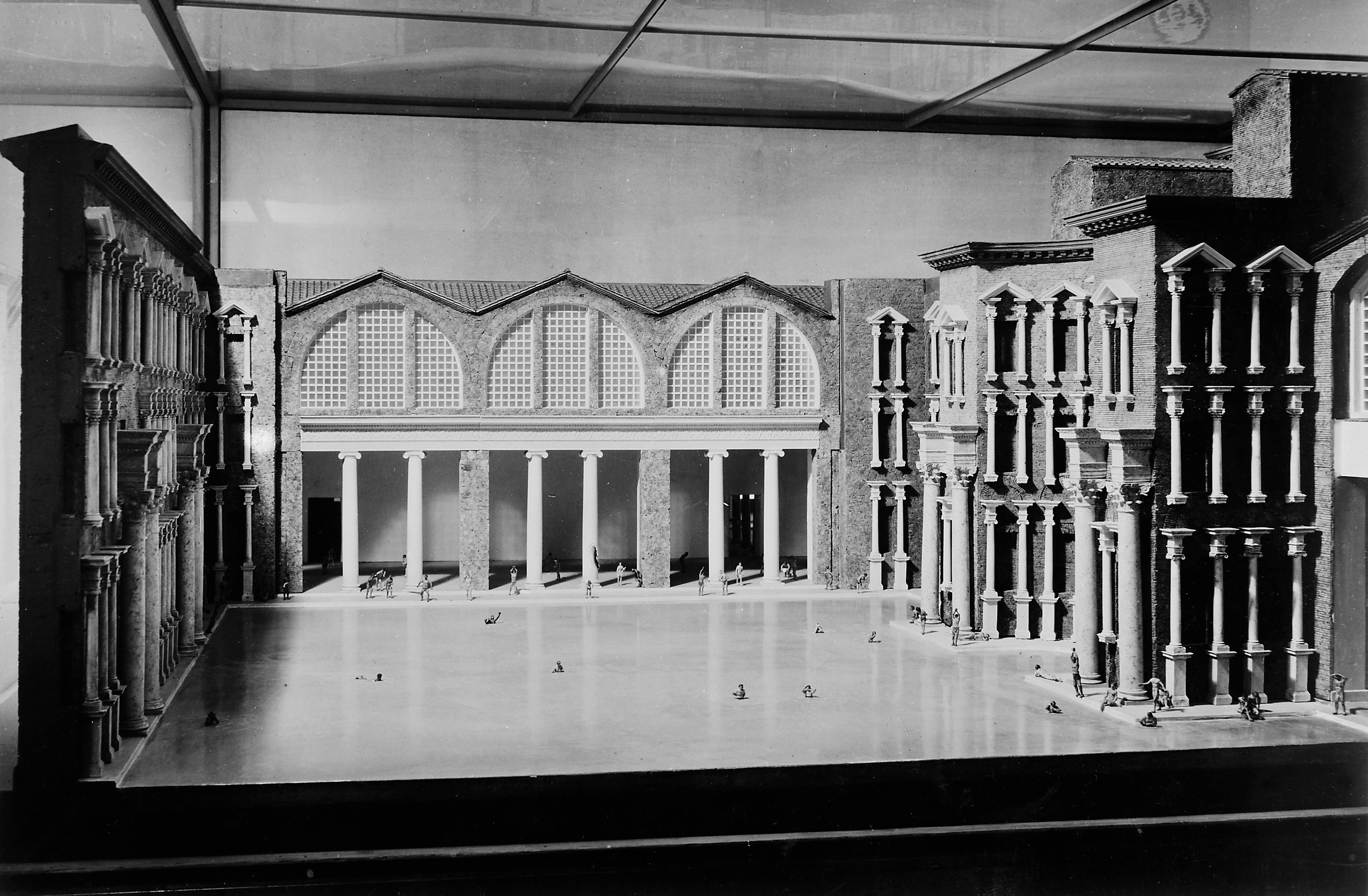 Swimming bath and galleries. General view of a model in the Deutsche Museum. Wellcome Images Keywords: Rome; Baths